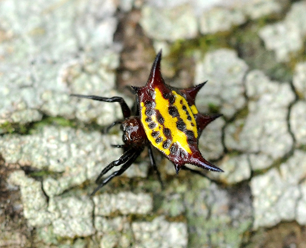 Gasteracantha curvispina from Central African Republic